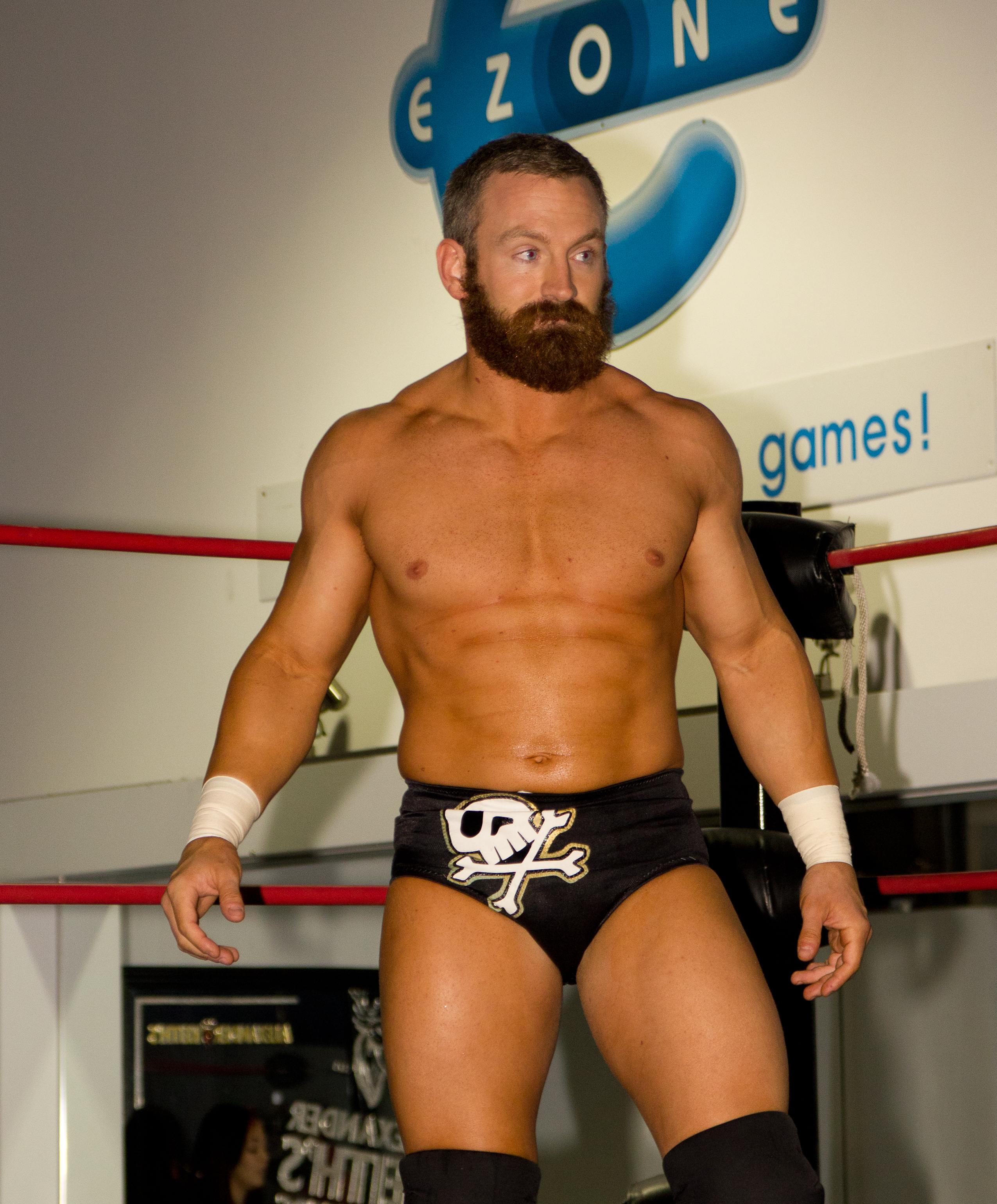 Matt "M-Dogg 20" Cross at a Smash Wrestling show in Etobicoke, ON